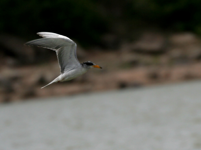 River Tern Sterna aurantia -Non-breeding in Hyderabad , India.